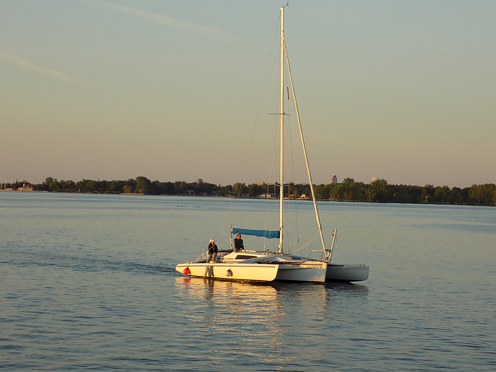 A Corsair F-27 Sport Cruiser named Zephyr.